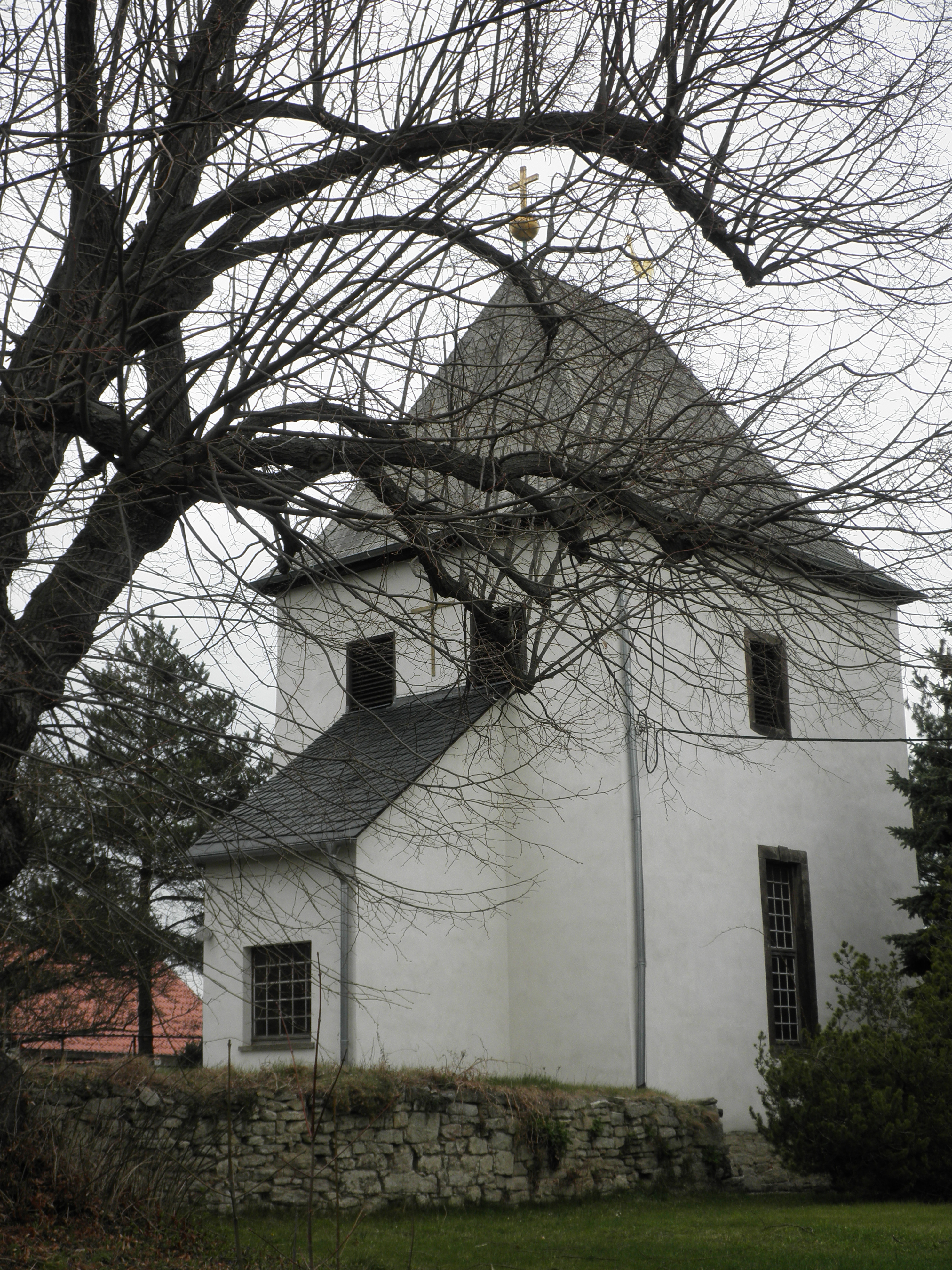 Church in Eichelborn (Mönchenholzhausen) in Thuringia